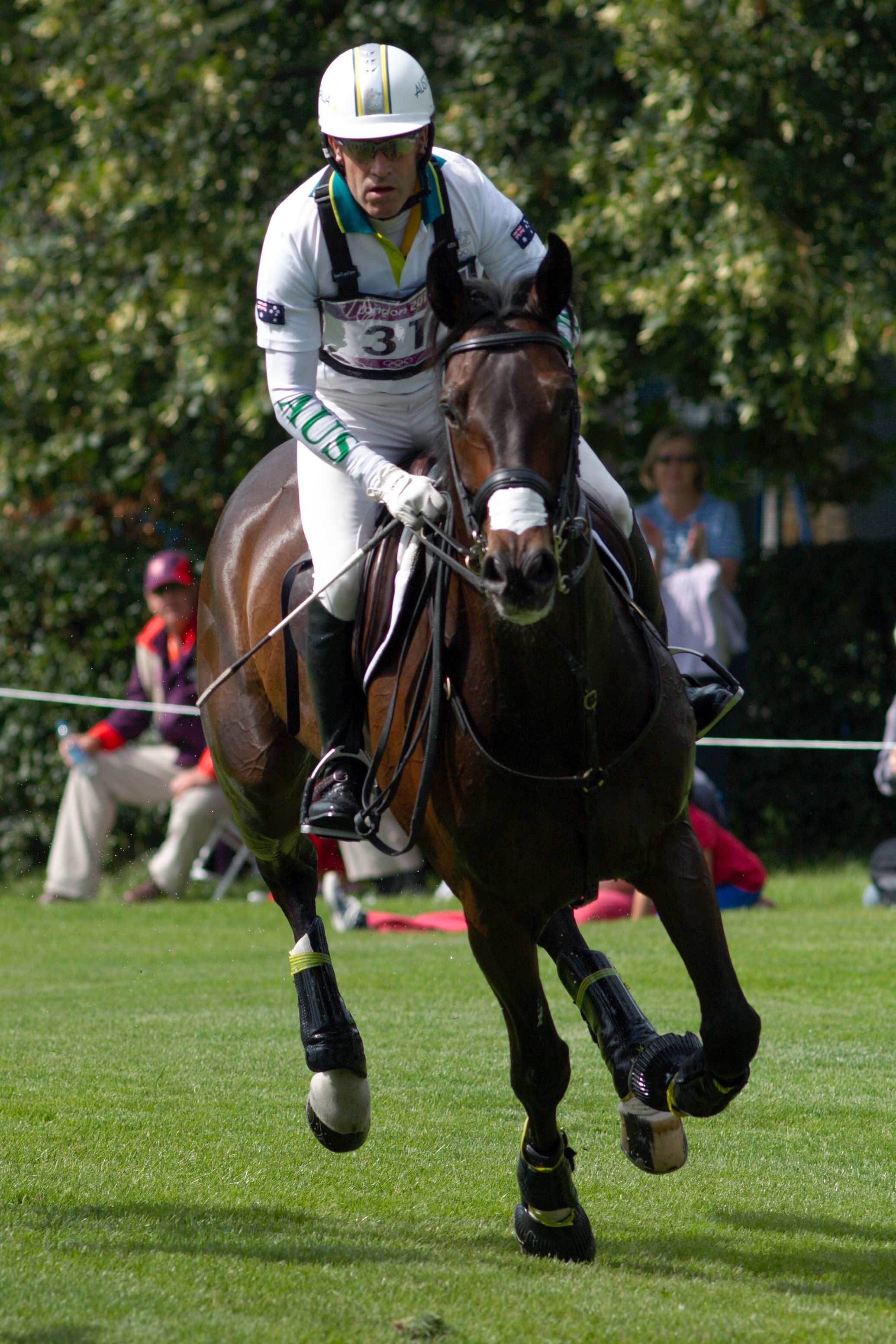 Andrew Hoy and Rutherglen, competing for AUS, during the cross-country phase of the Eventing during the 2012 Olympic Games in Greenwich Park, London.